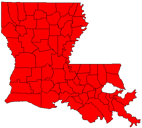 Louisiana election Republican sweep parish map